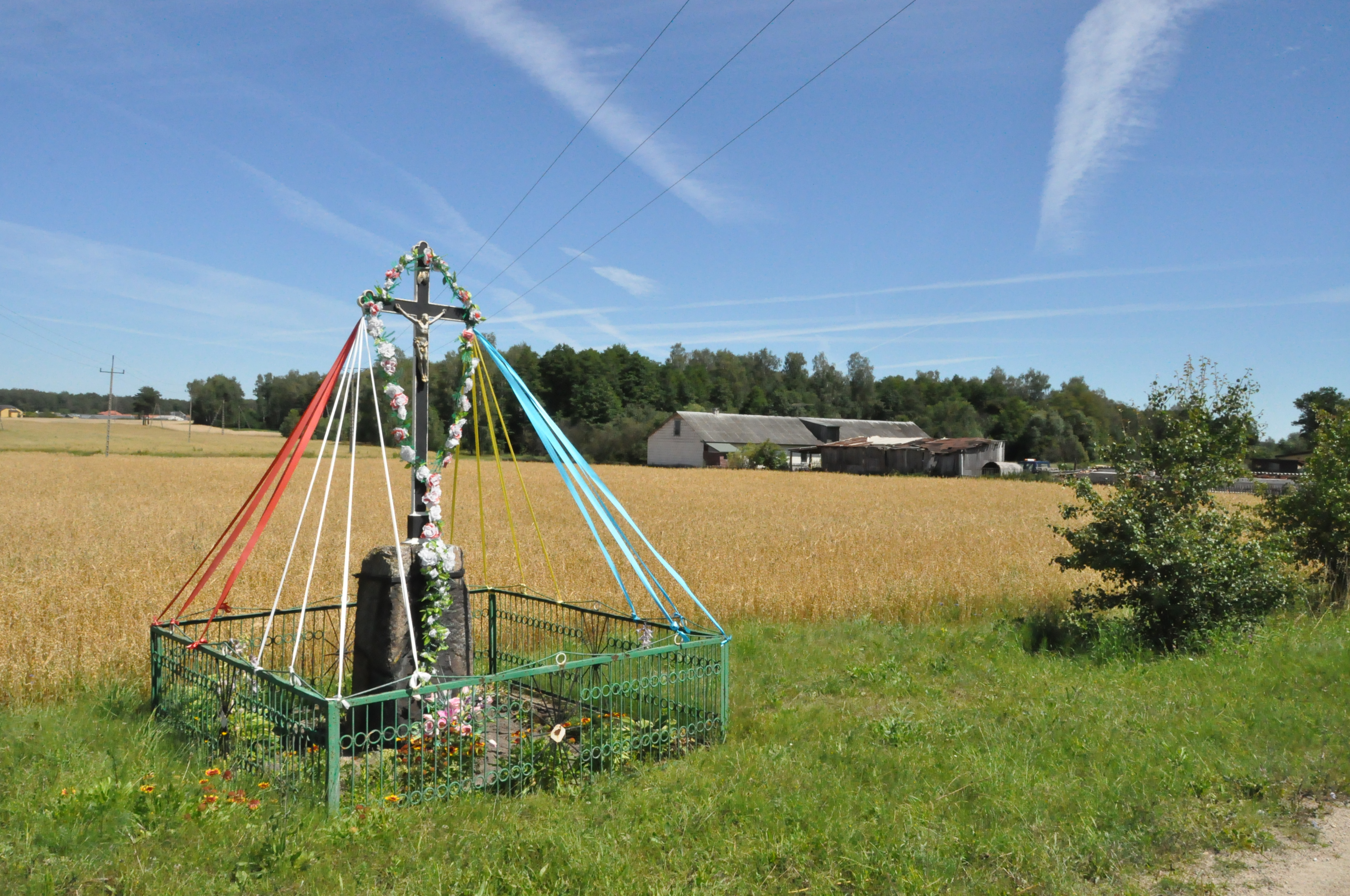 Roadside cross in the village